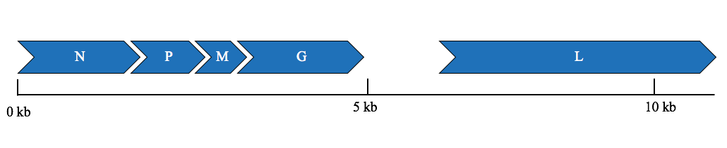 This is an image of the genome of the West Caucasian Bat Lyssavirus, which is comprised of five genes, including N, P, M, G, and L.